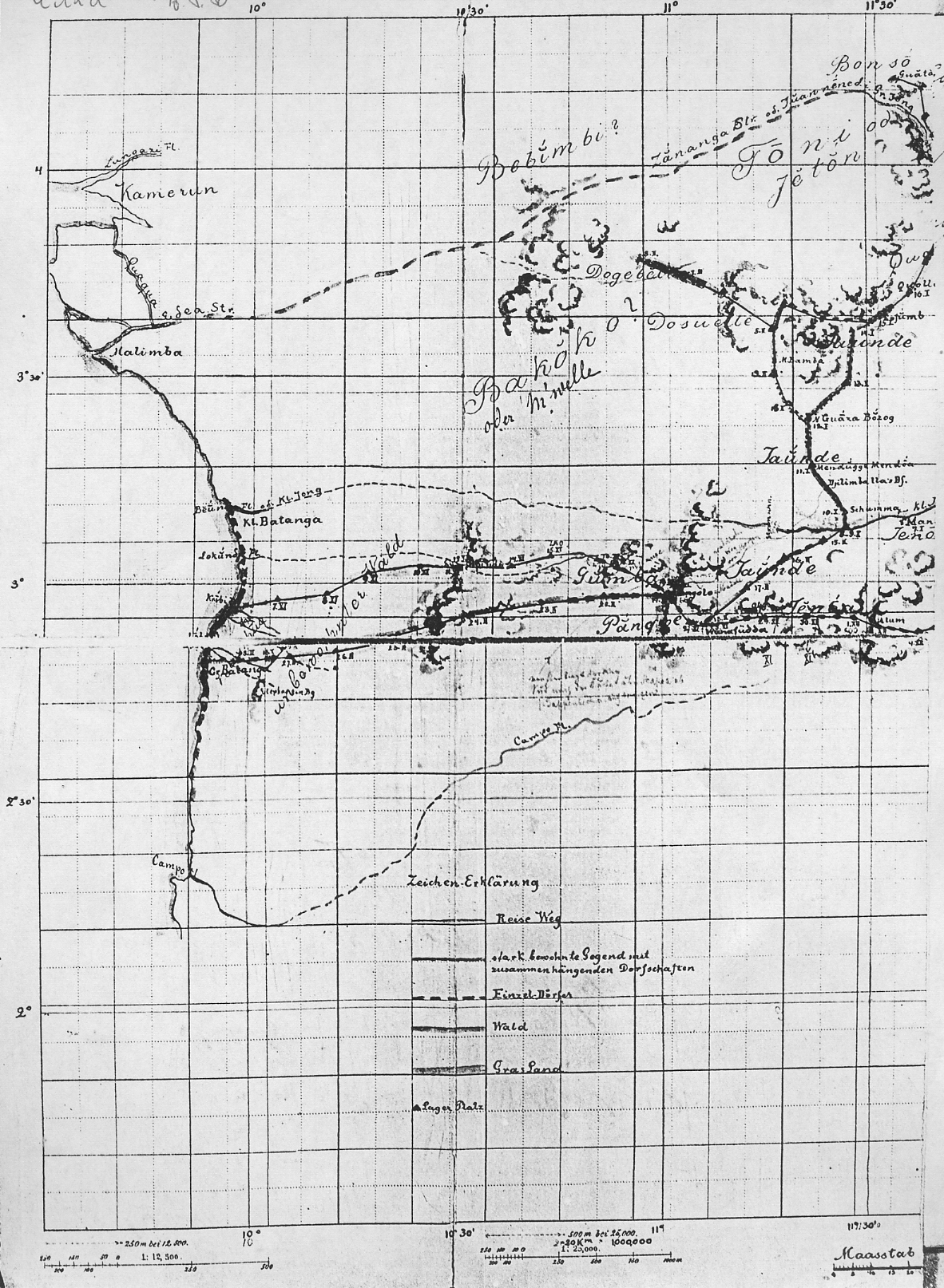 Sketch of the route of the expedition of Kund and tappenbeck into the hinterland of Cameroon